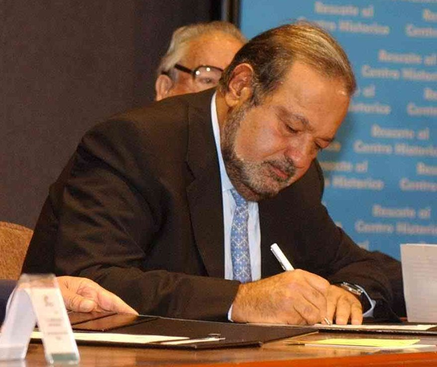 Cropped picture of Carlos Slim, a Mexican businessman.